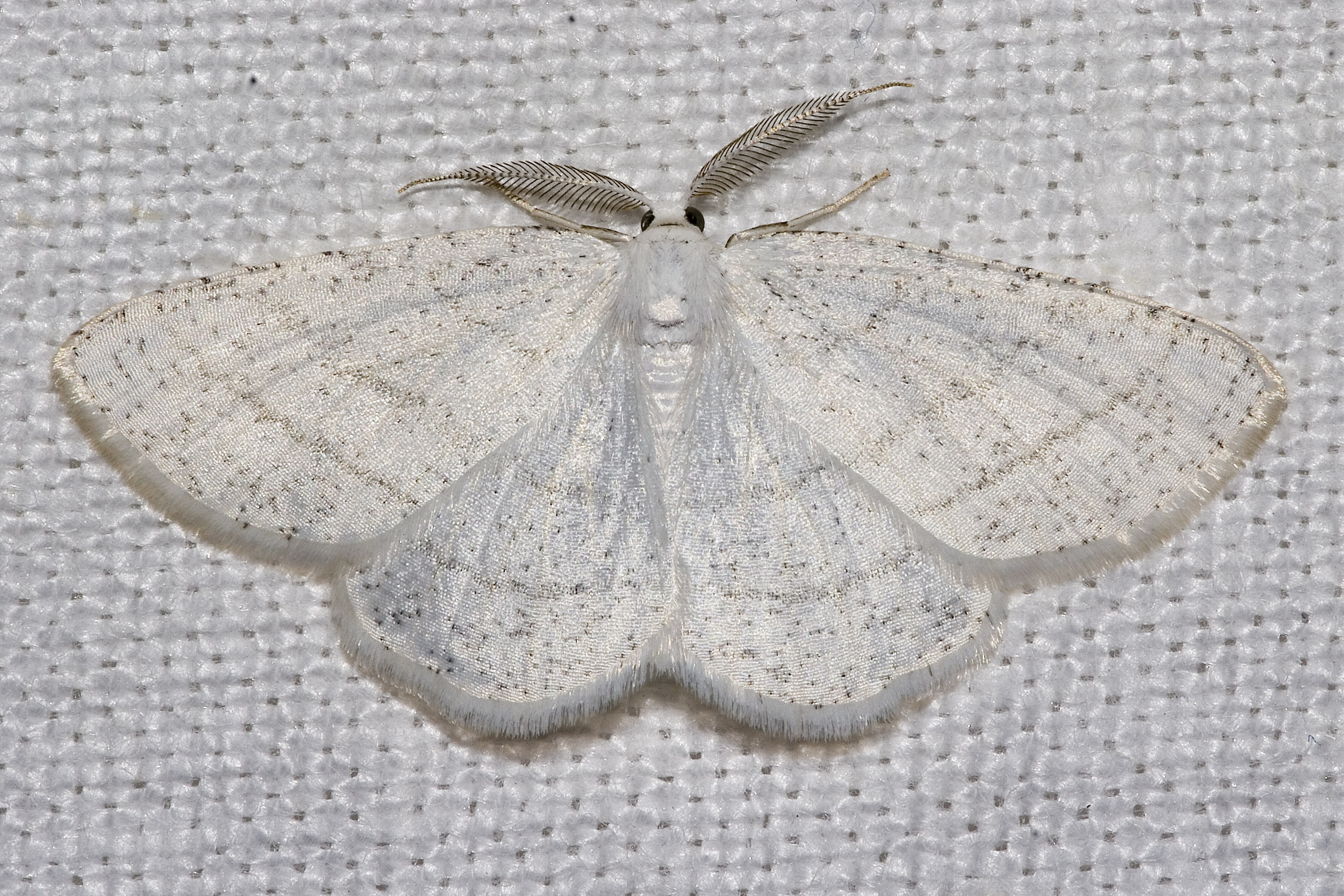 Common White Wave, Cabera pusaria